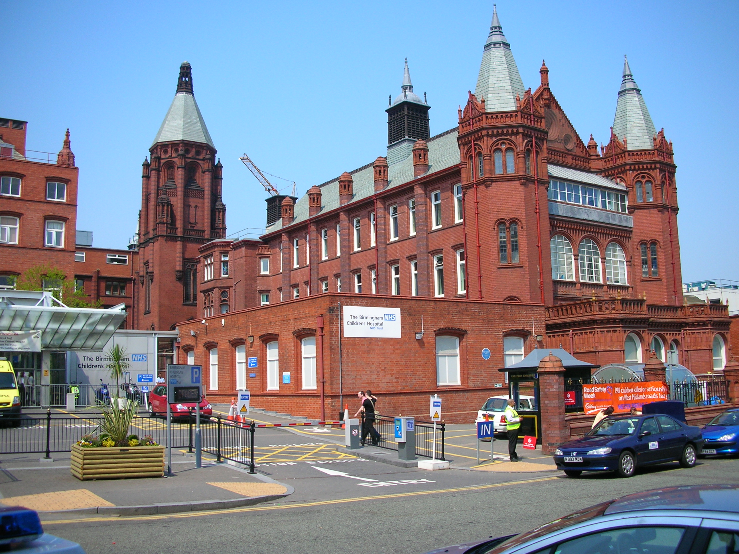 Birmingham Children's Hospital, Birmingham, England, photographed by me 11th May 2006.